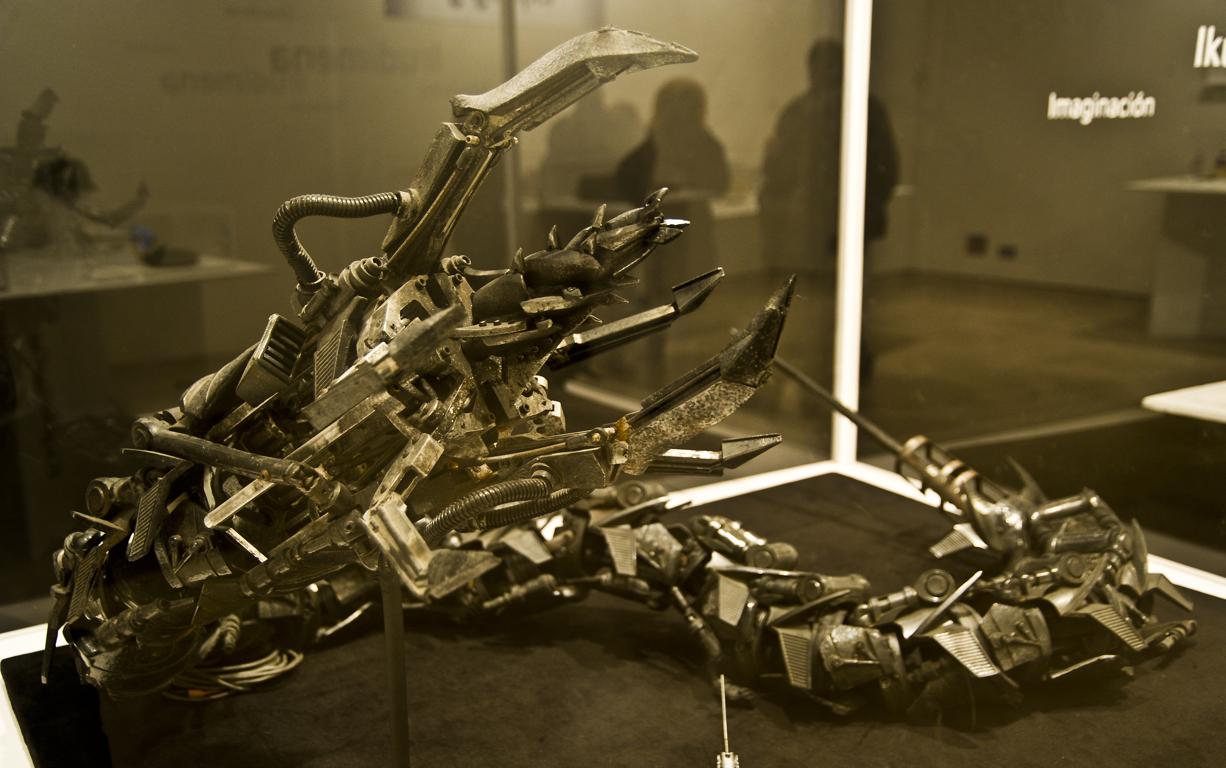 Hydrobot from the 2009 film Terminator Salvation displayed at ExpoSYFY, San Sebastián, Spain.